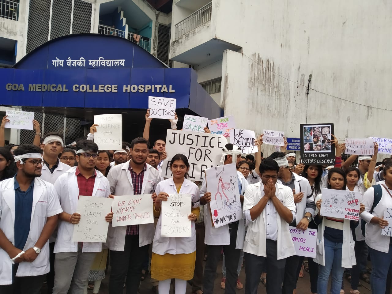 Doctors protest for a safe work environment at Goa Medical College